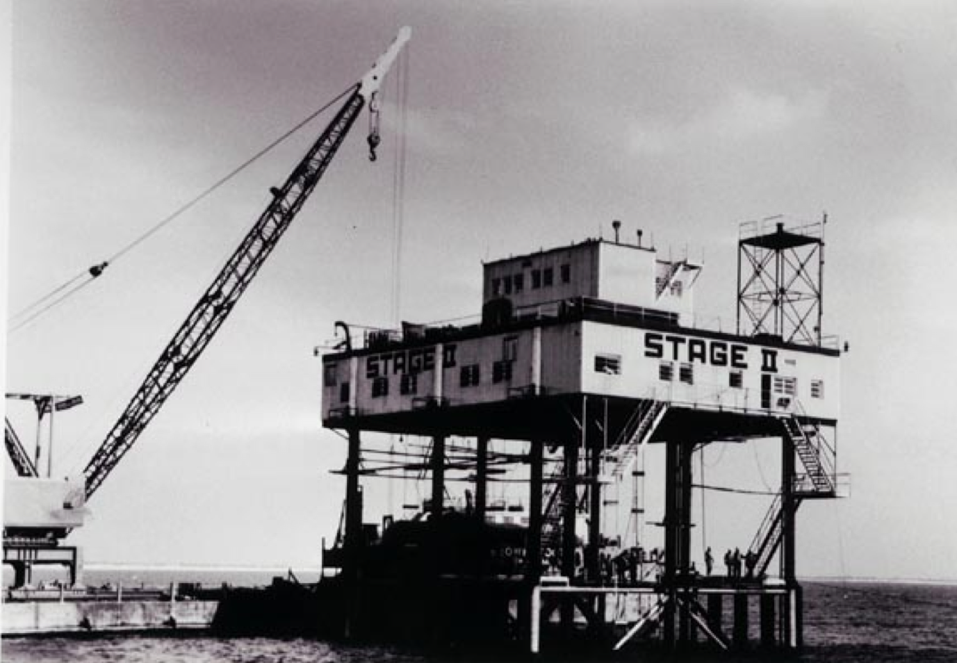 Stage II under construction